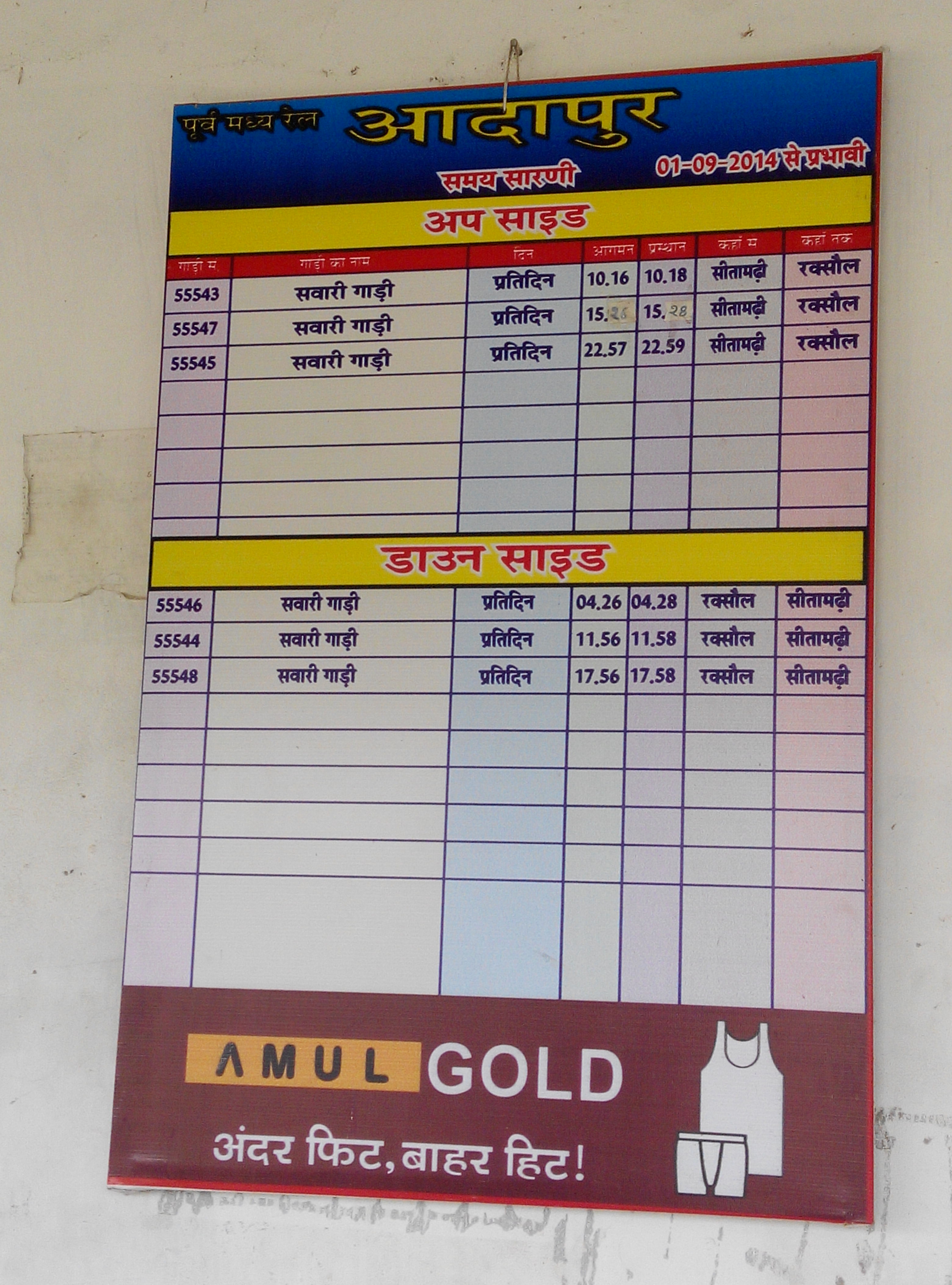 Only passenger trains halt here.